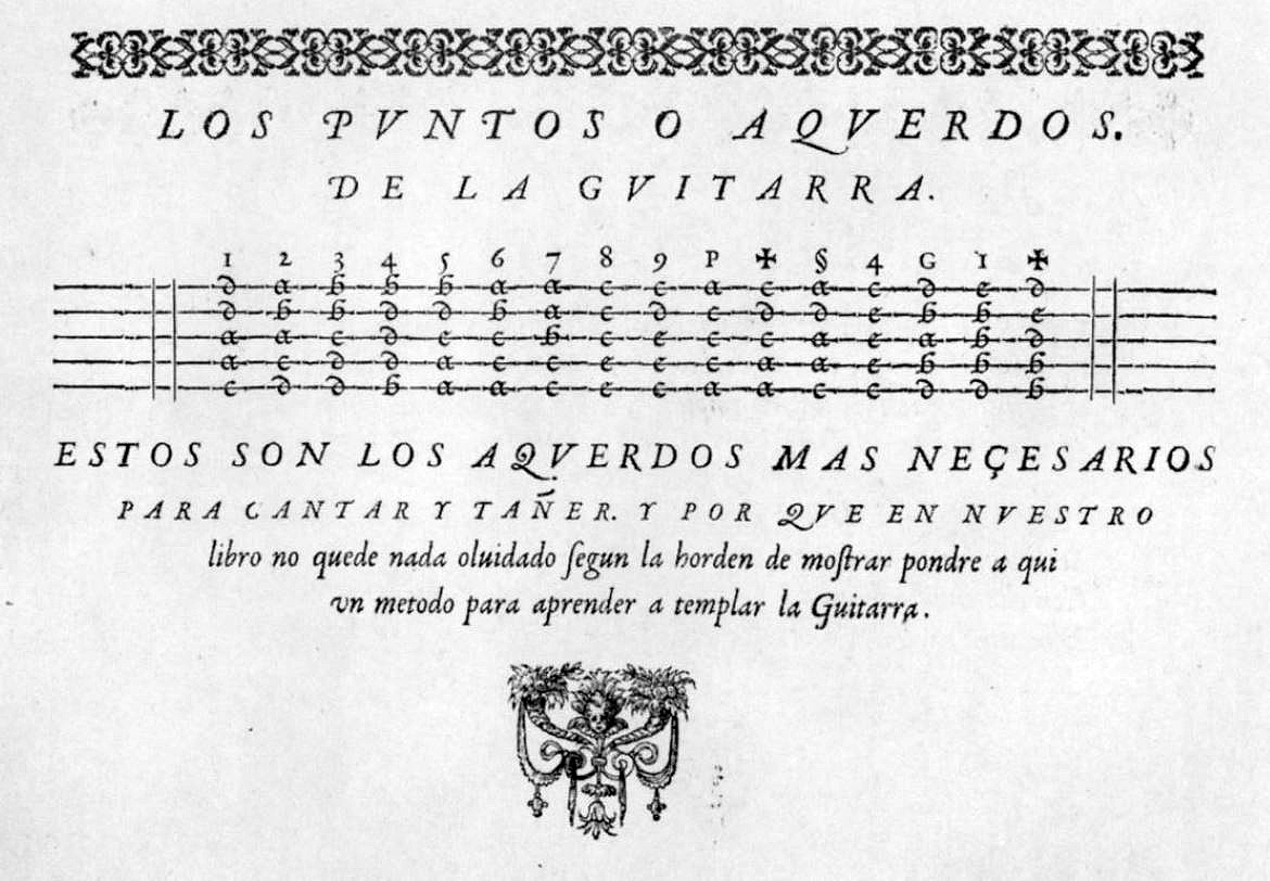 One page of Luis de Briceno's Metodo muy facilissimo (Paris, 1626).